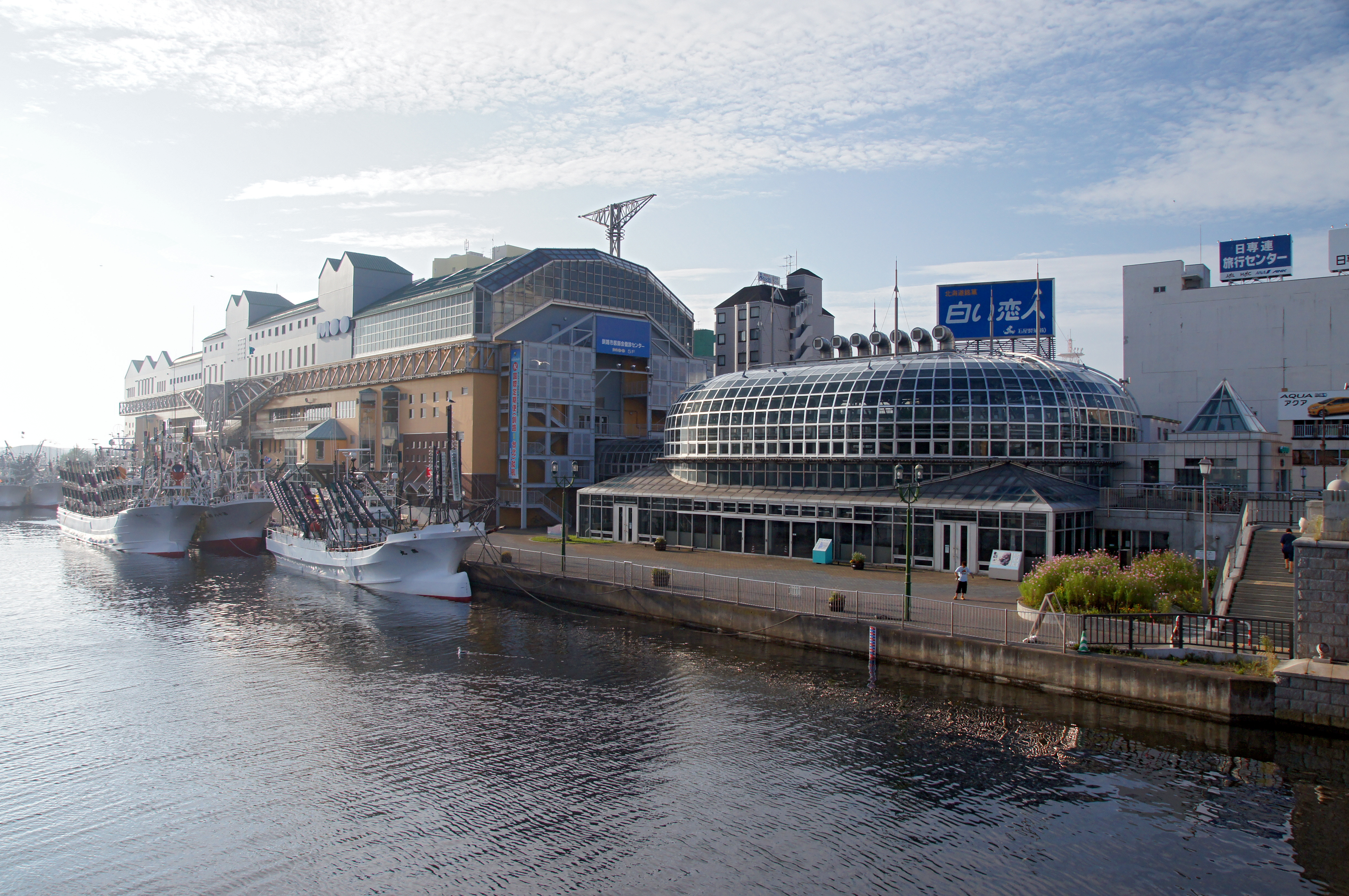 Kushiro Fisherman's Wharf MOO and EGG in Kushiro City, Hokkaido prefecture, Japan